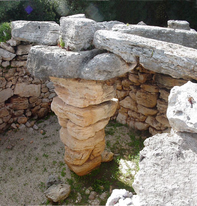 Column of Hospitalet Vell